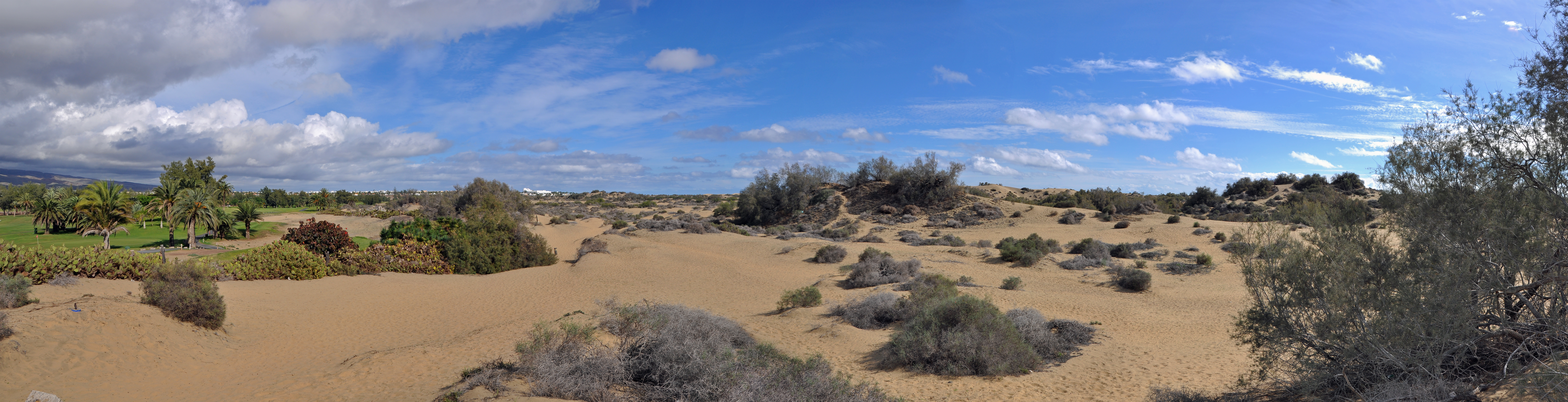 Maspalomas (Gran Canaria): nature reserve "Dunas de Maspalomas"; left: Maspalomas Golf